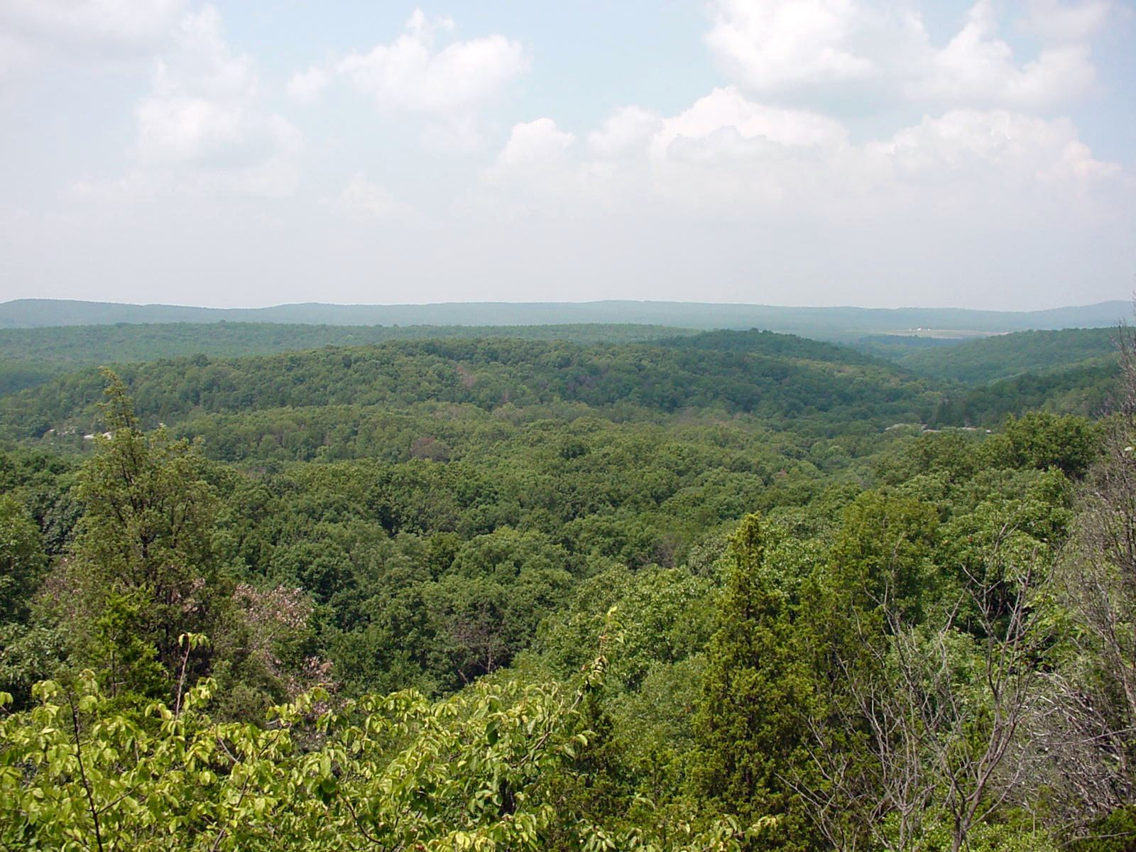 Shawnee National Forest, Garden of the Gods, South Illinois, USA